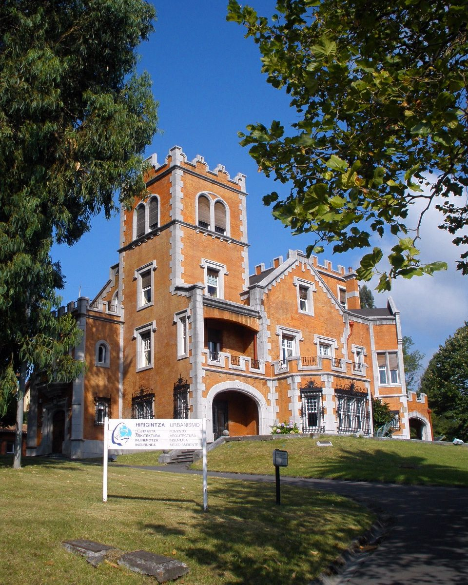 Palacio de Santa Clara, en Algorta, Guecho (Vizcaya)